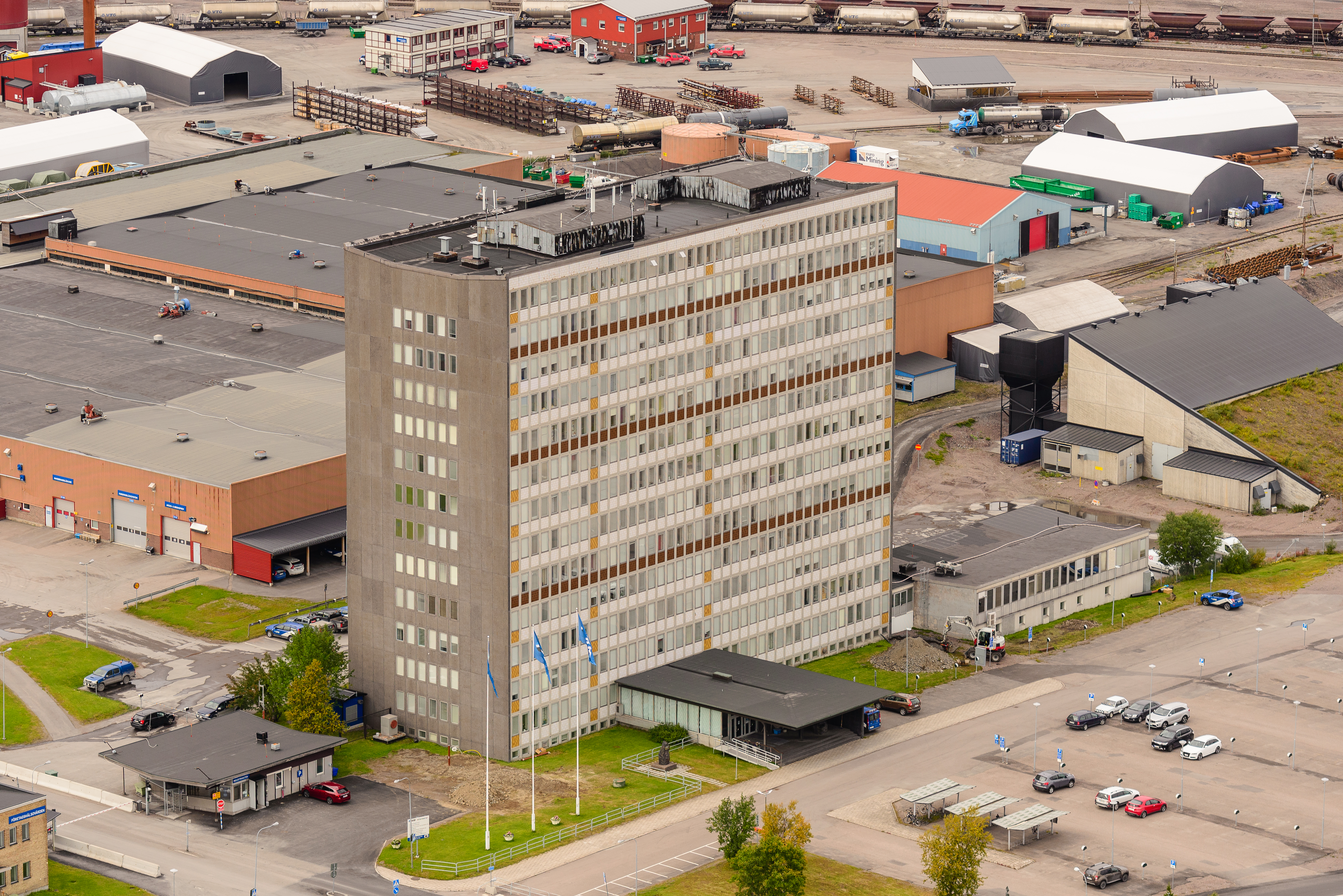 Office buildings for LKAB in Kiruna. Built 1960, architect Hakon Ahlberg